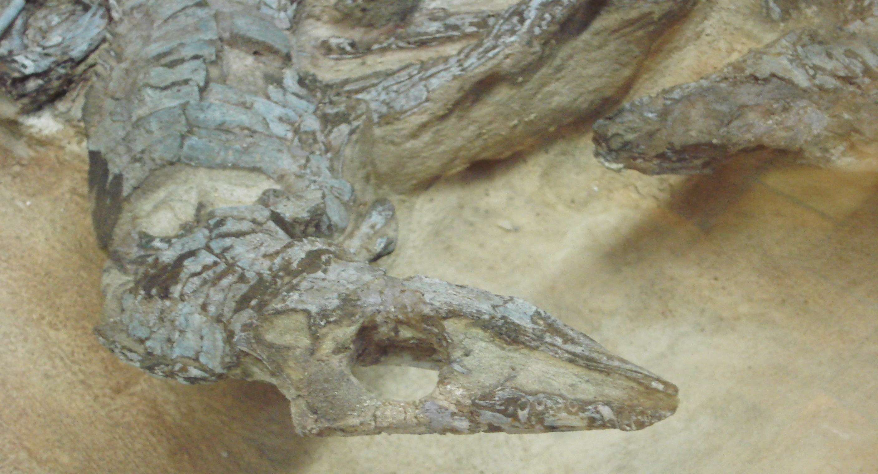 fossil of aetosaurus